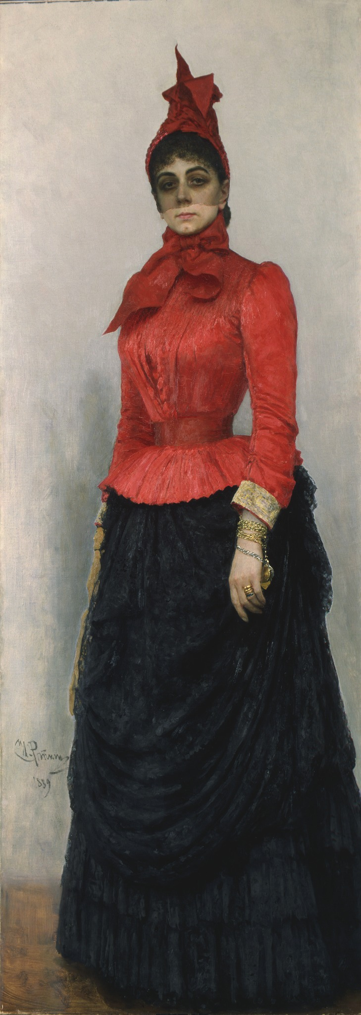 Portrait of Baroness Varvara Ivanovna Ikskul von Hildenbandt